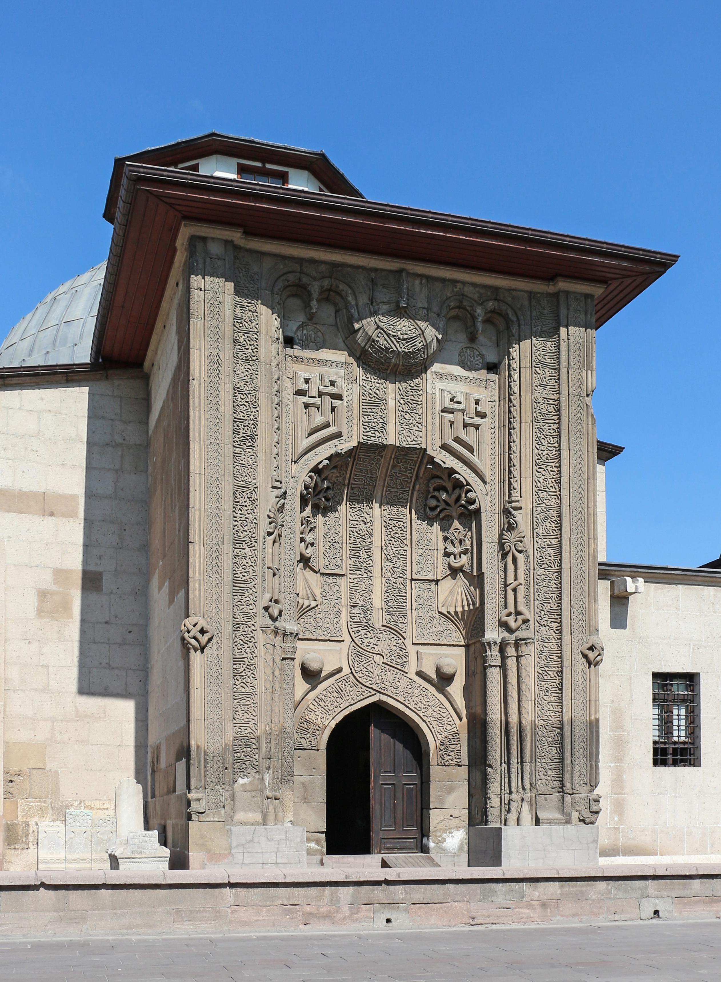 Main door of the Ince Minareli Medrese, Konya, Turkey